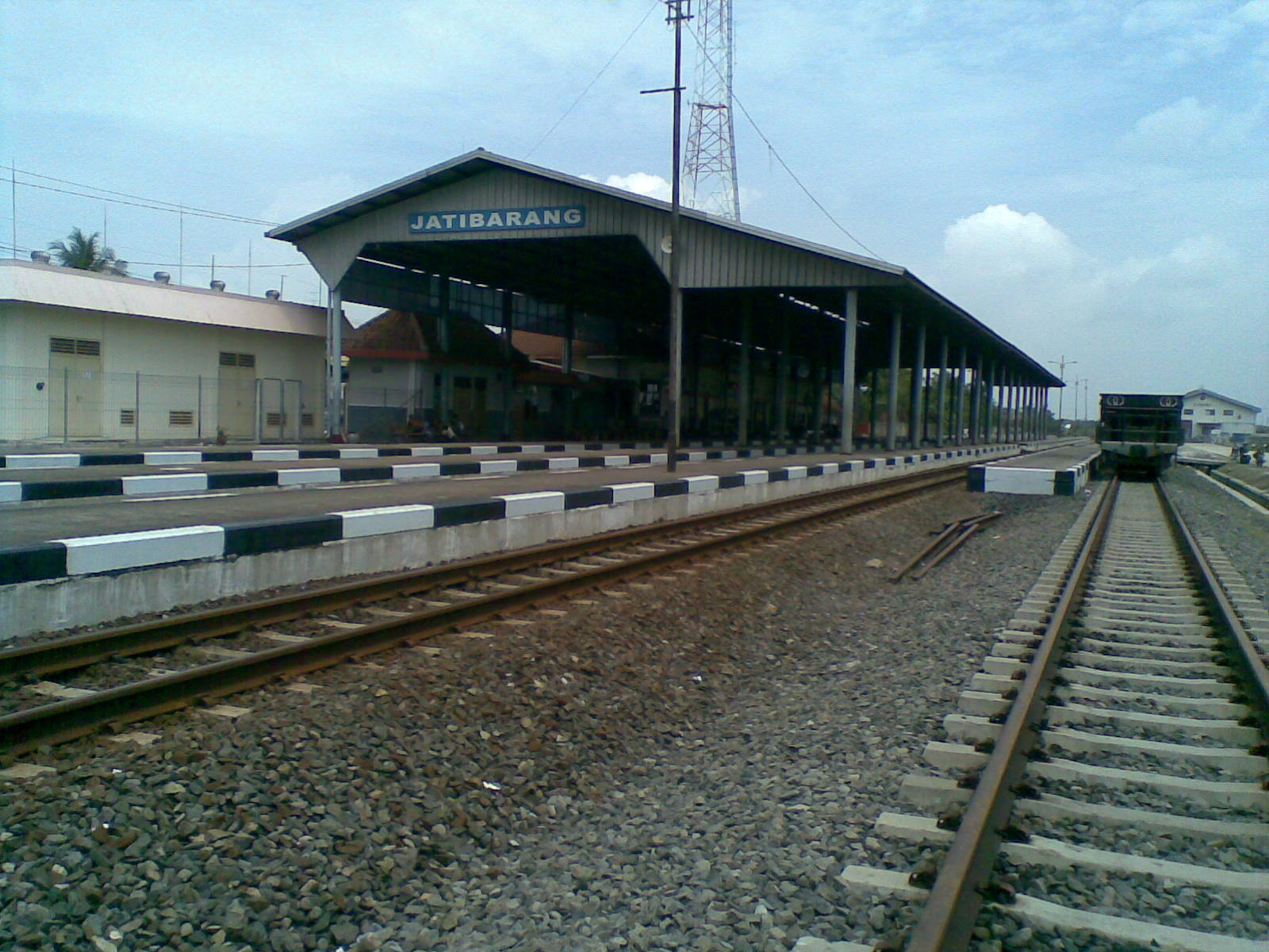 Jatibarang StationJawa: ꦱꦼꦠꦱꦶꦪꦸꦤ꧀ꦗꦠꦶꦧꦫꦁꦆꦤ꧀ꦢꦿꦩꦪꦸBahasa Indonesia: stasiun Jatibarang